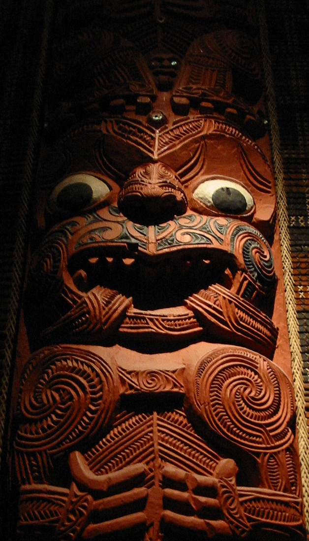 House post from Hotunui wharenui (carved Maori meeting house) late 19th century, Ngati Maru of Hauraki, at Auckland Museum. Photo by uploader, 20 May 2006, no rights reserved. Kahuroa 18:51, 24 May 2006 (UTC)